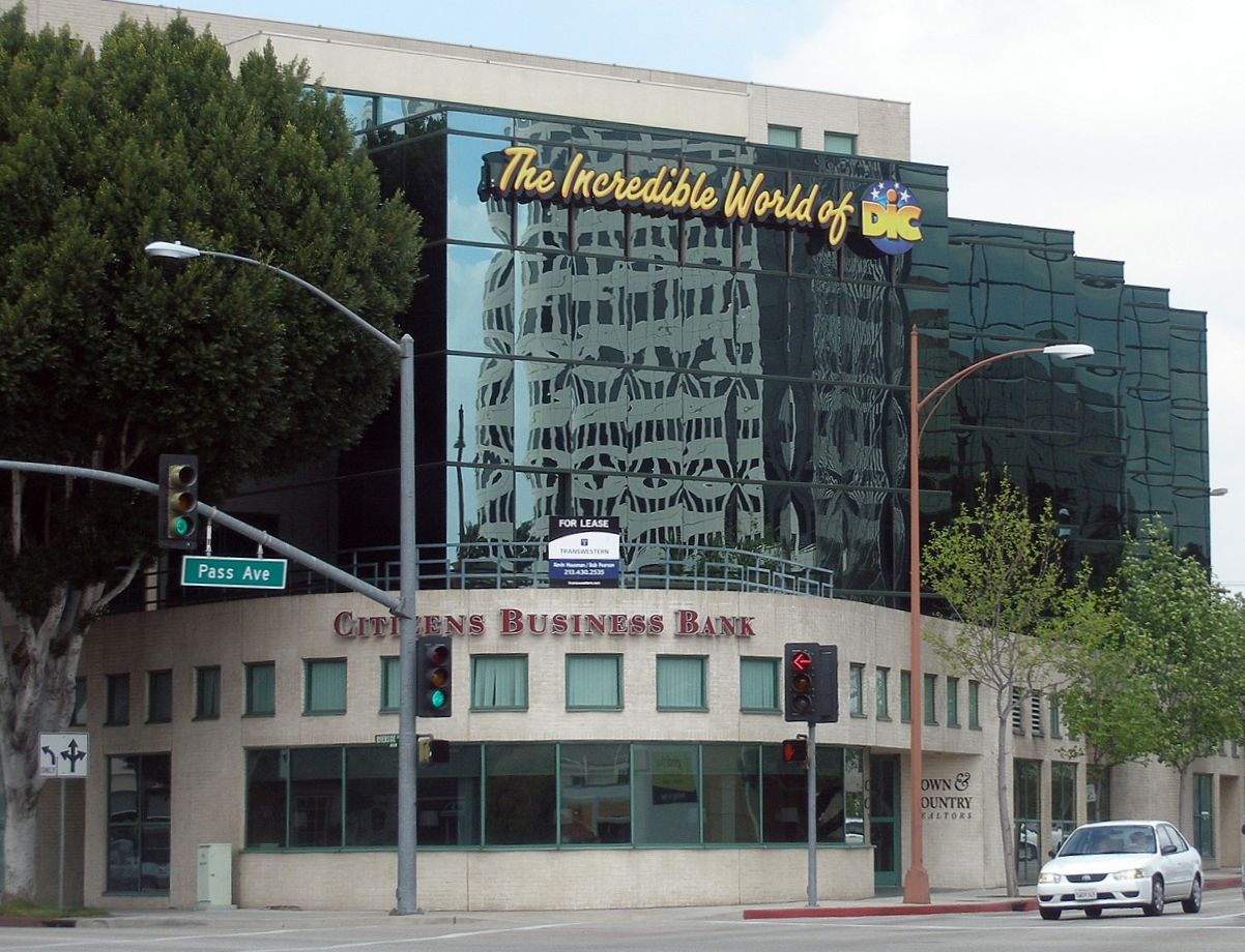 Former siege of animation studio DIC, in Burbank, CA.